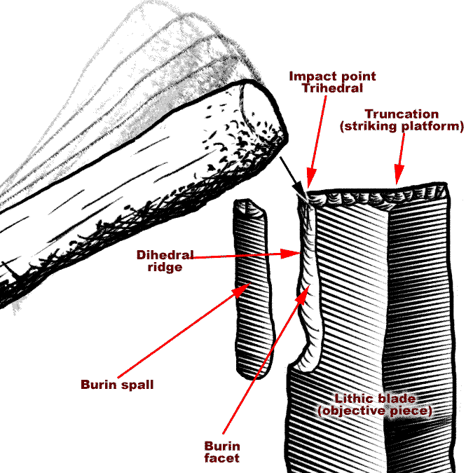 Technique of Burin blow (sample burin on a truncation).